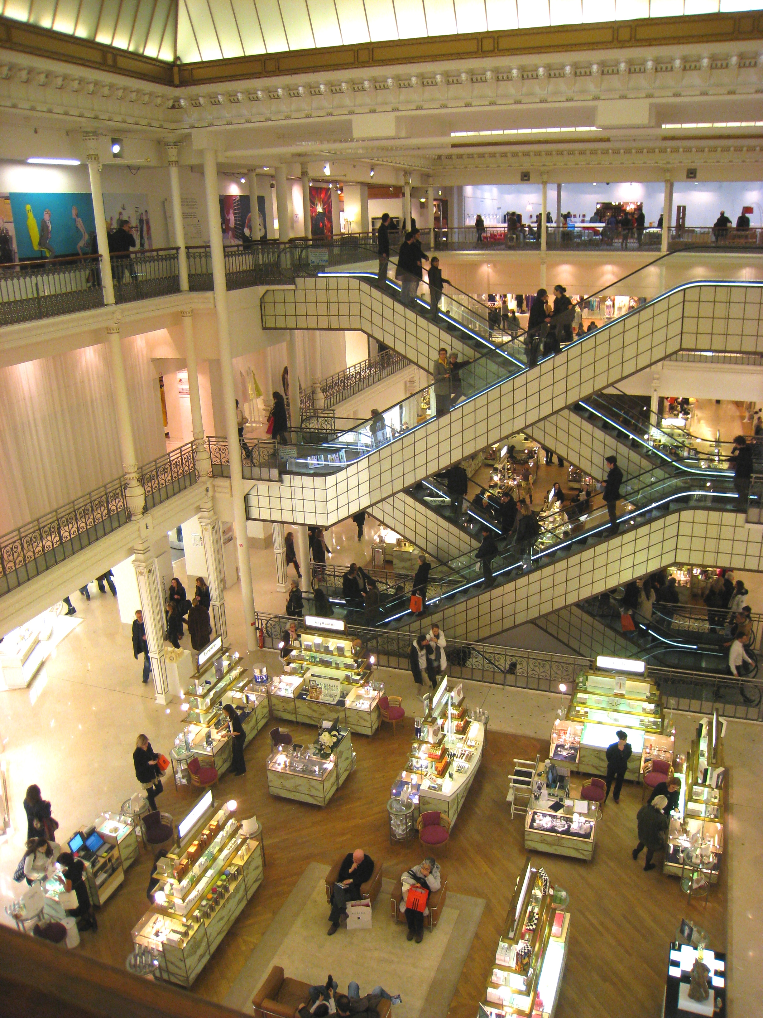 "Le Bon Marché", Paris, France. Interior view.